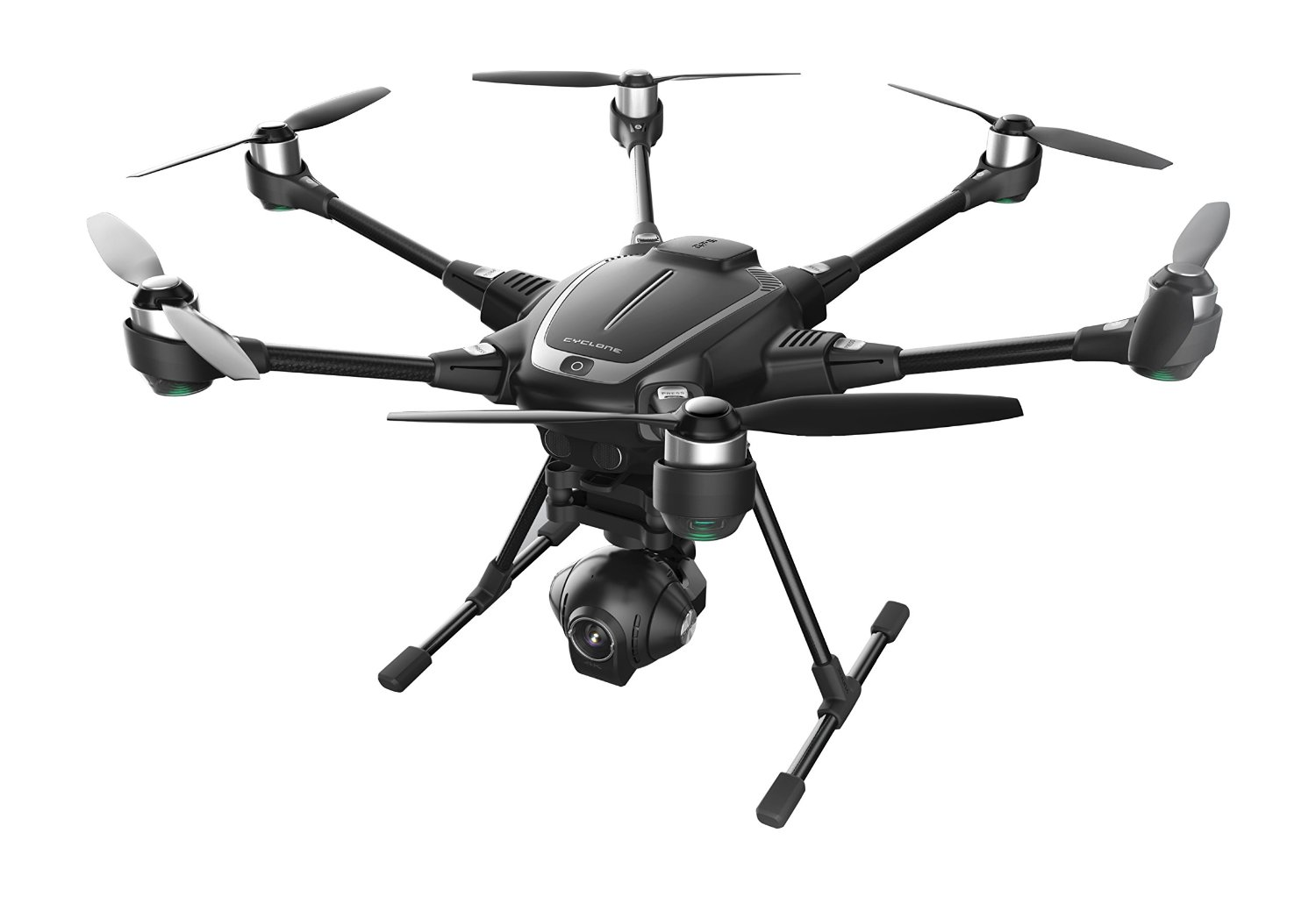 Picture of the Yuneec Typhoon H Hexacopter